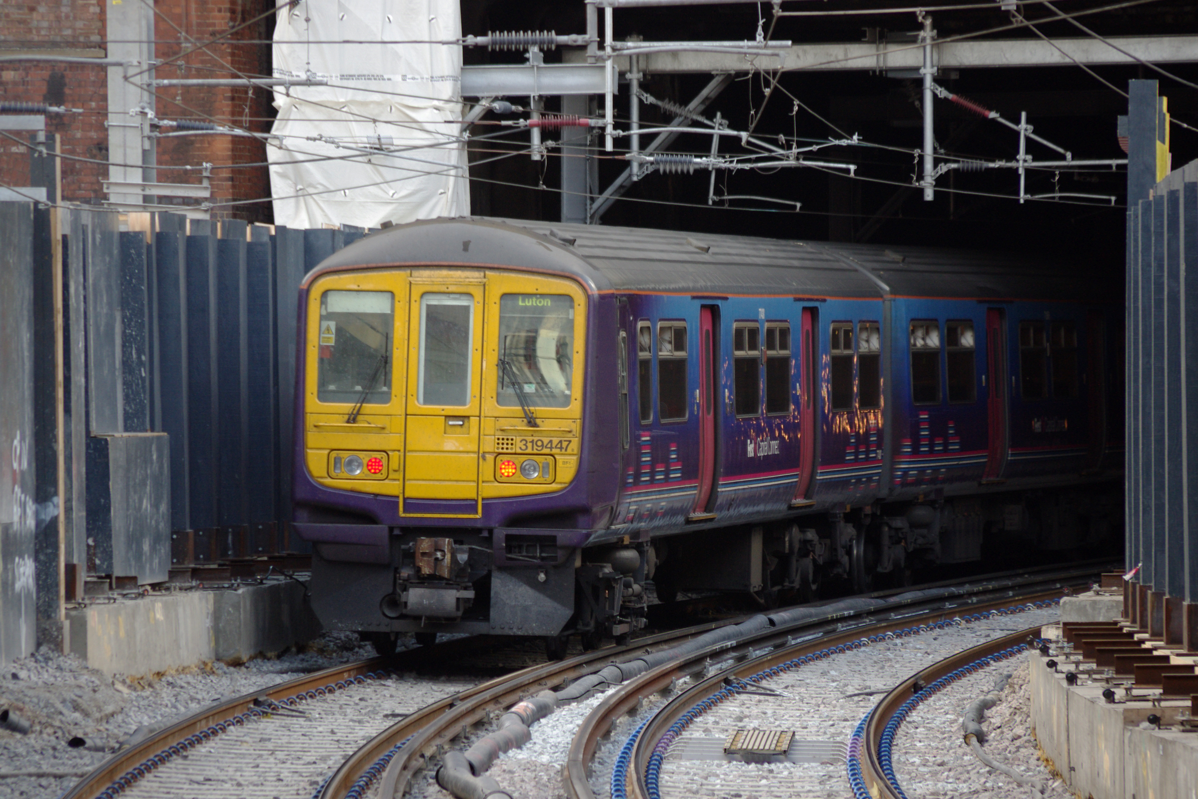 First Capital Connect EMU 319447 tails 319448 as it leaves Farringdon with a service from Luton to Sutton via Wimbledon. On the left are the old tracks towards Moorgate, which were disconnected to allow the platforms at Farringdon to be lengthened.